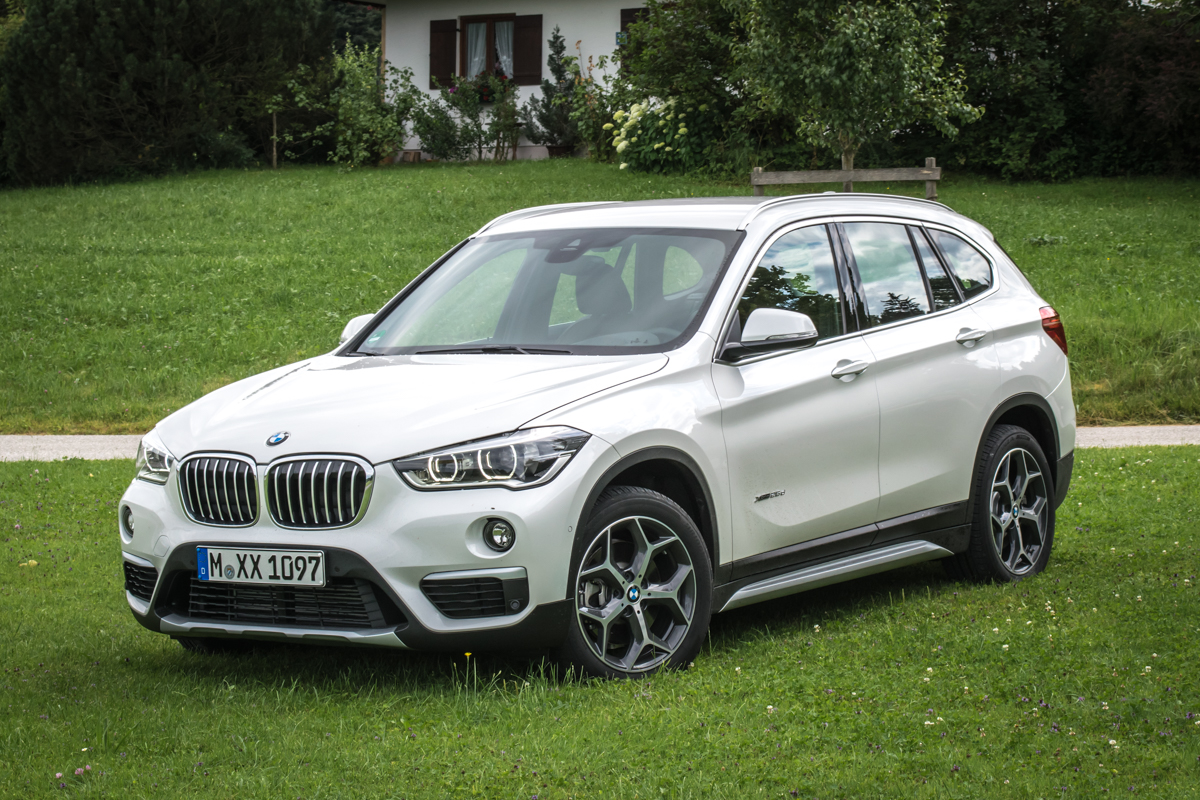 The BMW X1 as xDrive 25d (2016) model year as seen at the Press Driving Event in July 2015